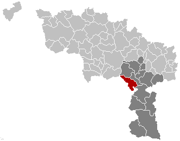 Map, municipality belgium Erquelinnes